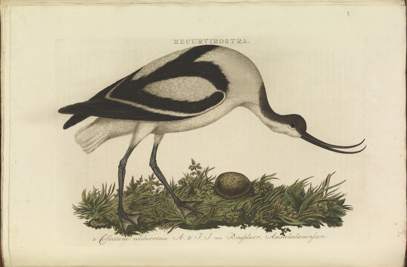 Plate 37 from the Nederlandsche vogelen by Nozeman and Sepp.